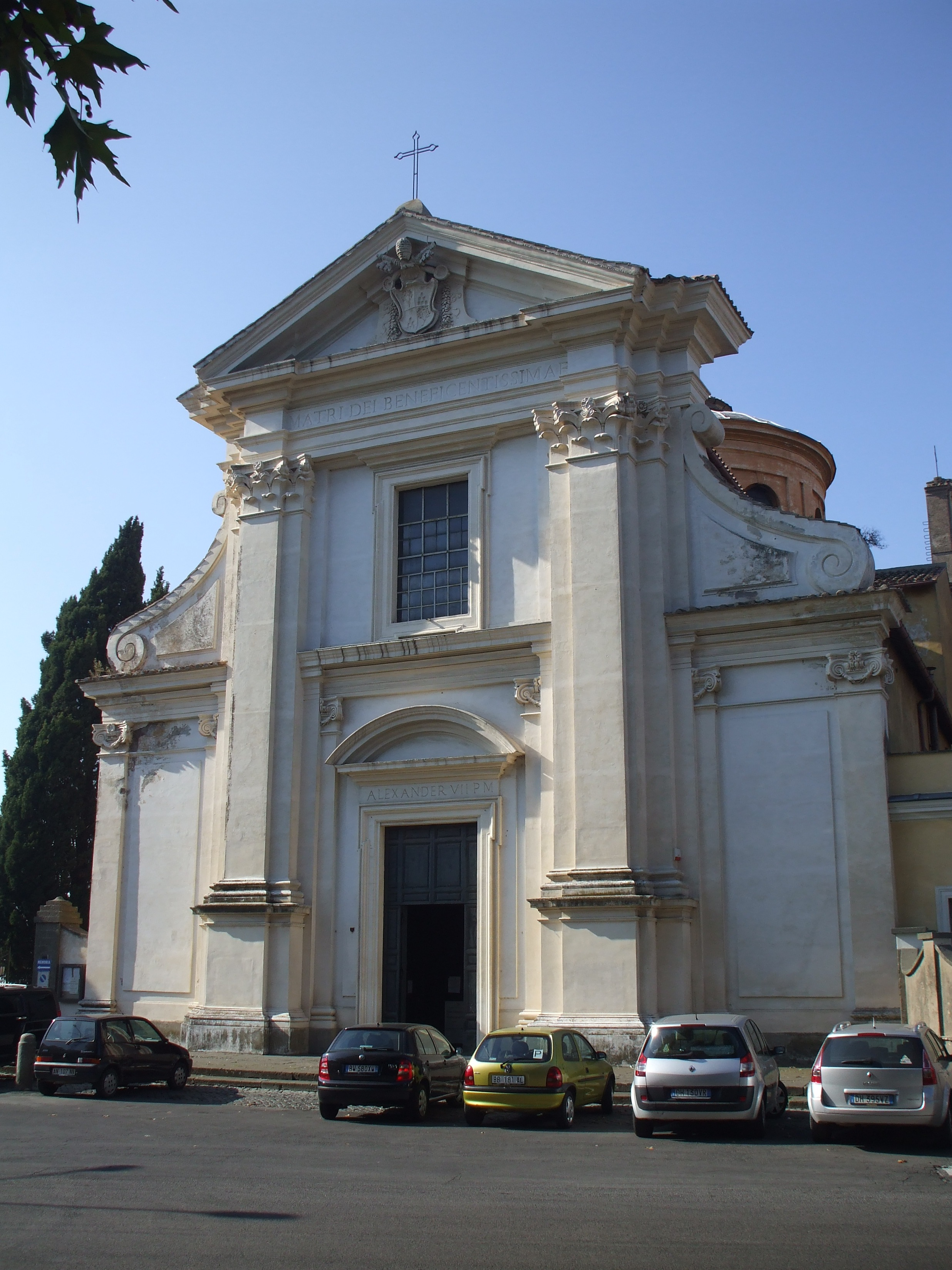 Galloro